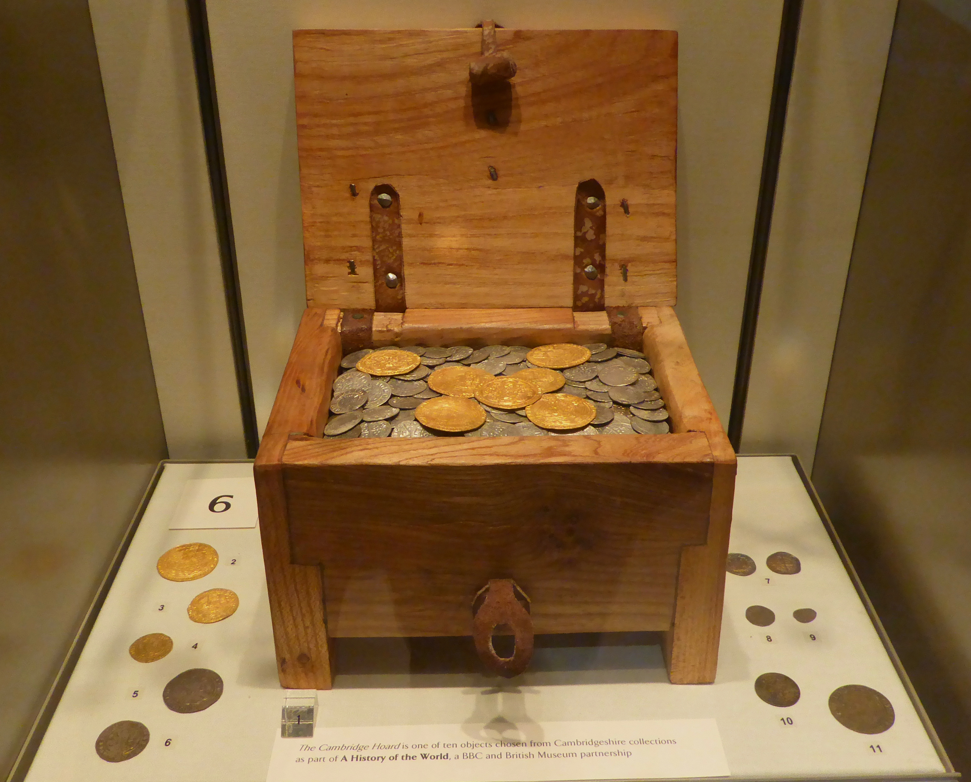 The Cambridge Hoard, a collection of 1,085 silver pennies and nine gold coins found in the city in 2000, and believed to have been deposited in the 1530s. On display at the Fitzwilliam Museum in Cambridge.